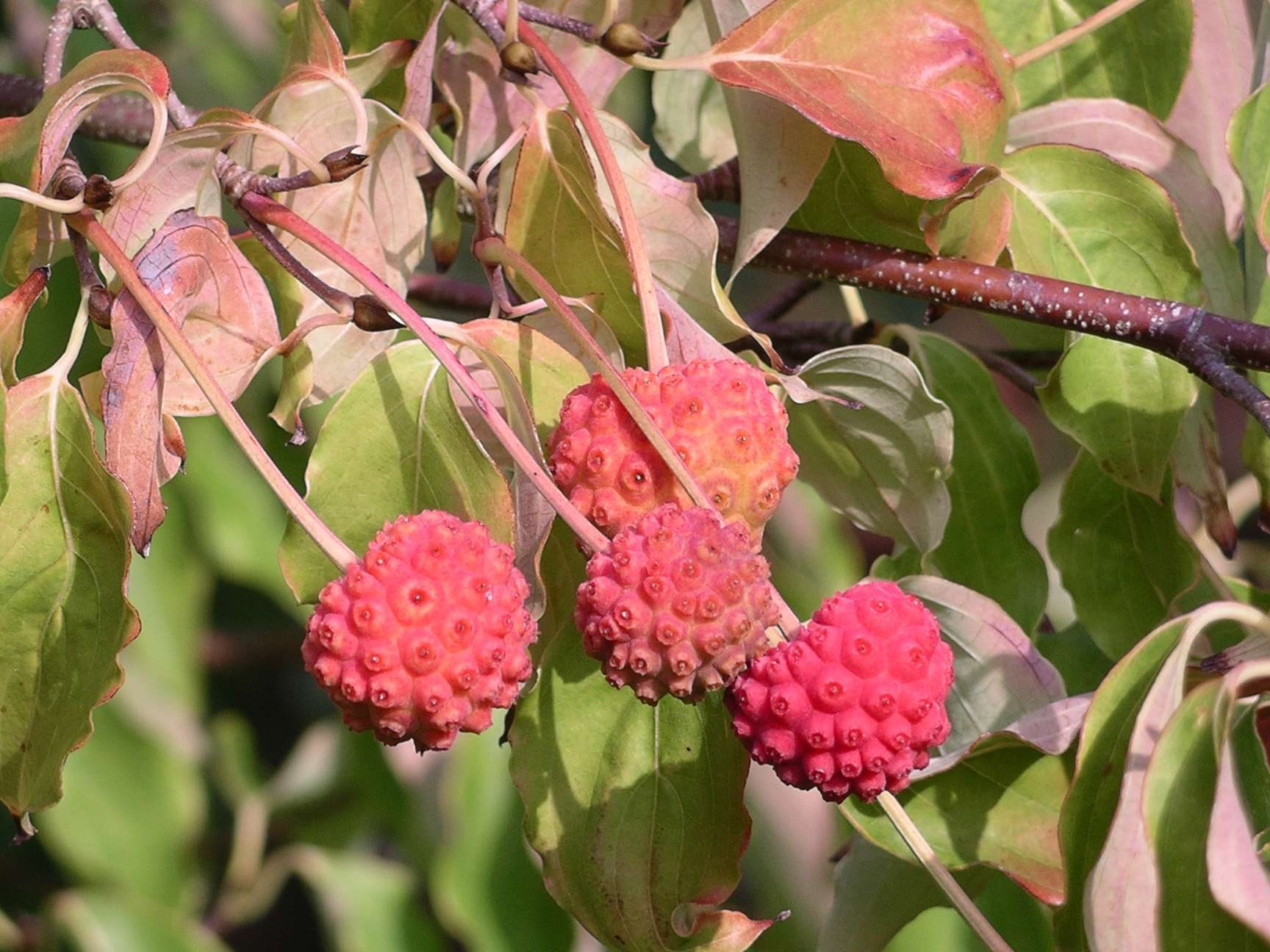 Cornus kousa fruit at Bodnant Gardens, October 16 2005